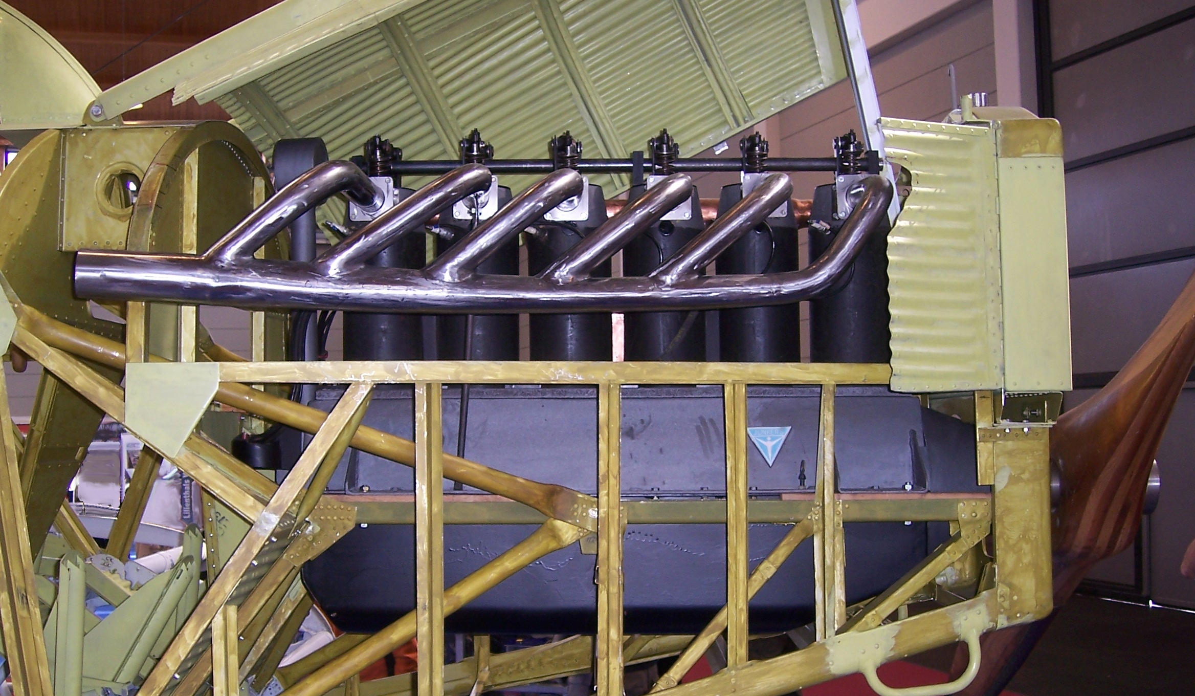 Junkers F 13 replica with Junkers L 5 mockup, AERO Friedrichshafen 2009